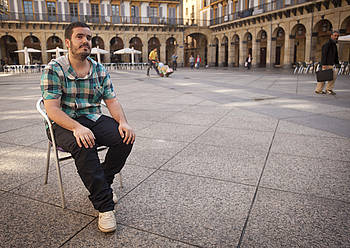 Hasier Larrarte, writer and poet. (photo: Berria, Gari Garaialde)